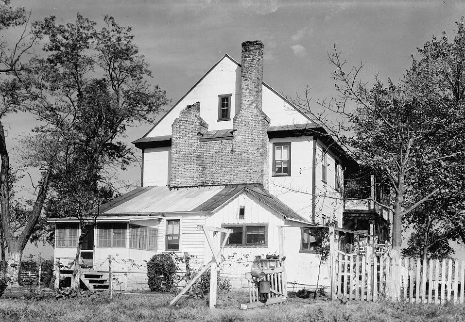 Pilgrim's Rest, State Route 607 vicinity, Aden (Prince William County, Virginia) cropped, HABS VA,76-AD,2-3 This file comes from the Historic American Buildings Survey (HABS), Historic American Engineering Record (HAER) or Historic American Landscapes Survey (HALS). These are programs of the National Park Service established for the purpose of documenting historic places. Records consist of measured drawings, archival photographs, and written reports. When reusing please credit: Library of Congress, Prints & Photographs Division, VA-837 This tag does not indicate the copyright status of the attached work. A normal copyright tag is still required. See Commons:Licensing for more information. This work is in the public domain in the United States because it is a work prepared by an officer or employee of the United States Government as part of that person’s official duties under the terms of Title 17, Chapter 1, Section 105 of the US Code. See Copyright. Note: This only applies to original works of the Federal Government and not to the work of any individual U.S. state, territory, commonwealth, county, municipality, or any other subdivision. This template also does not apply to postage stamp designs published by the United States Postal Service since 1978. (See § 313.6(C)(1) of Compendium of U.S. Copyright Office Practices). It also does not apply to certain US coins; see The US Mint Terms of Use. This file has been identified as being free of known restrictions under copyright law, including all related and neighboring rights.